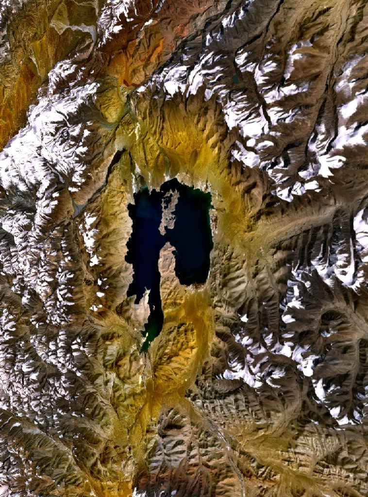 Kara-Kul, Tajikistan, view from East. Kara-Kul is a impact crater with a diameter of ~50 km, it's age is estimated to be 5 million yeras. It is partially filled by a lake. Vertical exaggeration 3x.